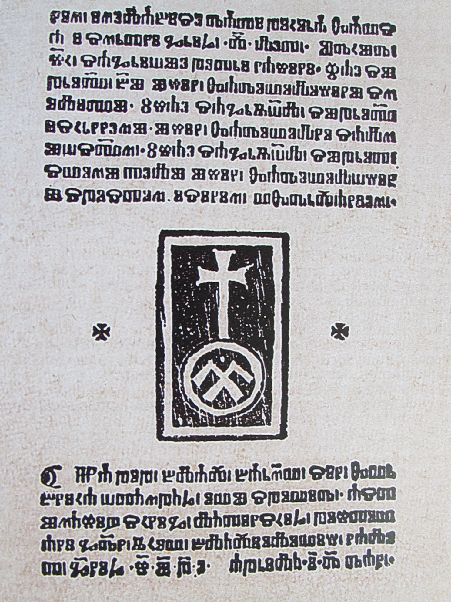 Spovid općema printed in 1496 Senj printing press, Croatia by Blaž Baromić